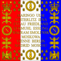 Reverse side of the banner of the Grenadier A Pied regiment, circa 1812, showing their battle honors.